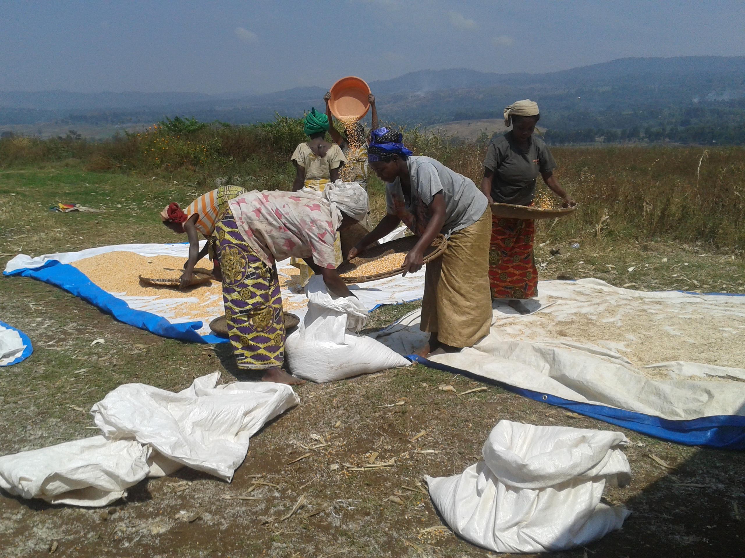 elles sont très motivées et les femmes sont beaucoup plus impliquées dans cette activité This is an image of "African people at work" from Democratic Republic of the Congo